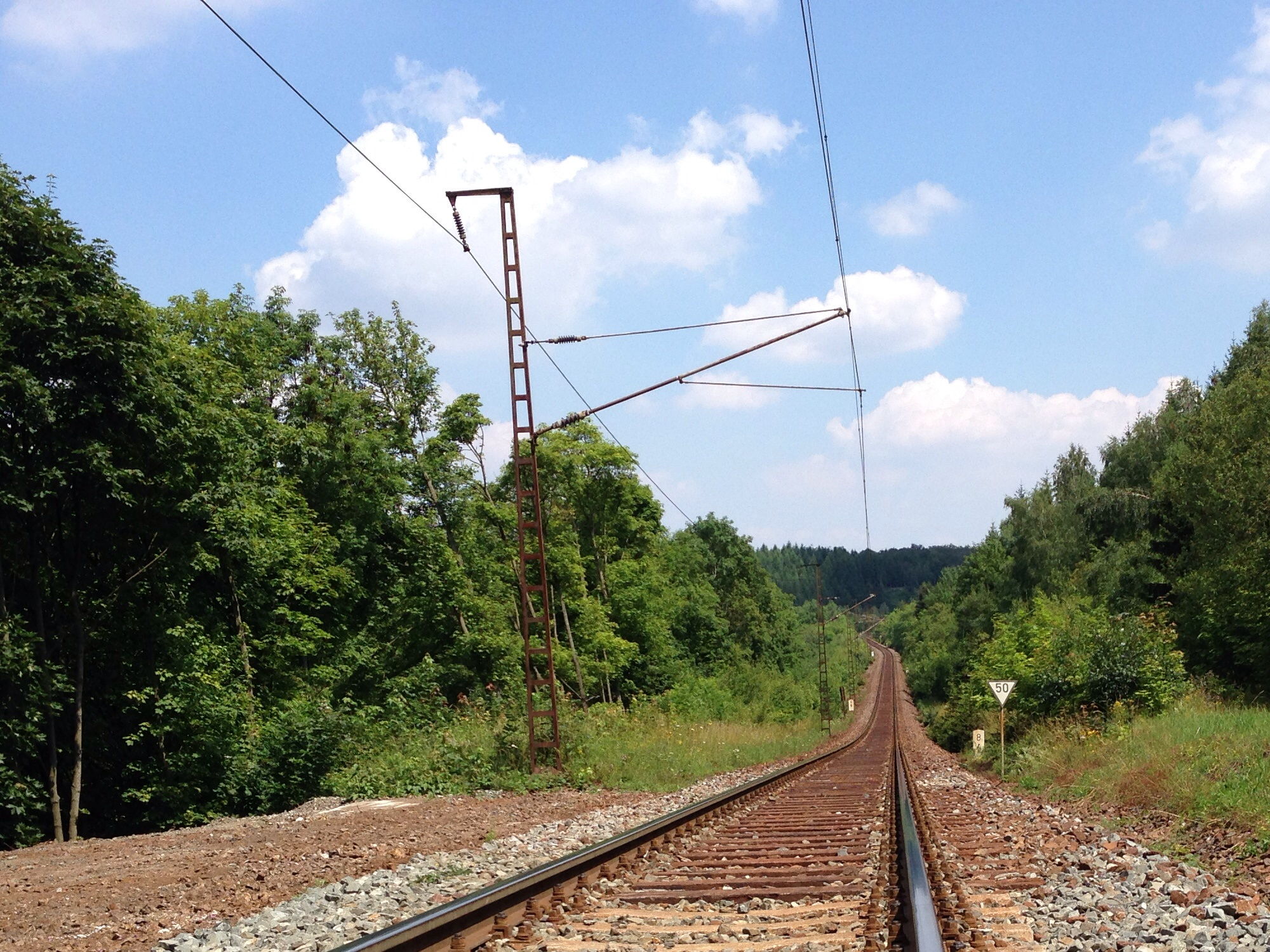 Rübeland railway near Hüttenrode, district Harz, Saxony-Anhalt, Germany